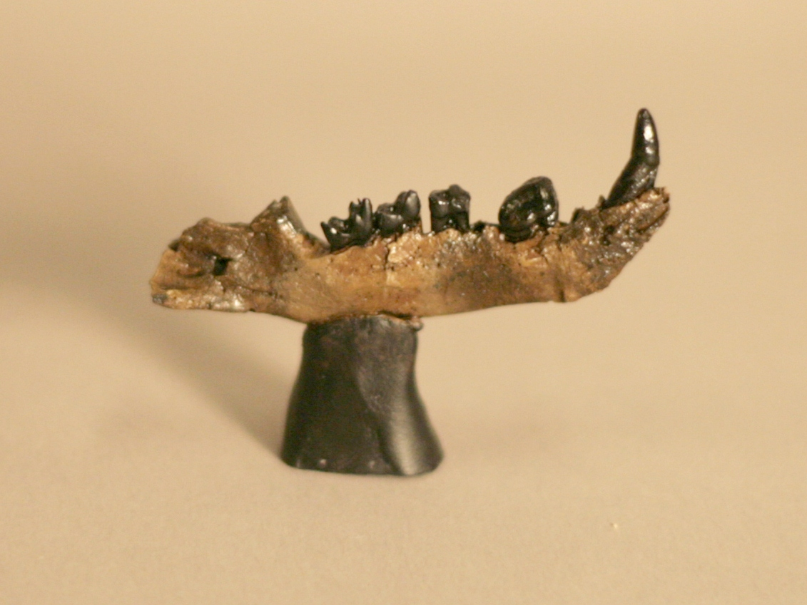 A Didelphodon mandible found in South Dakota, now located in the permanent collection of The Children’s Museum of Indianapolis. The discovery of the Didelphodon jaw is important because it is the first Didelphodon jaw containing teeth. The jaw will help scientists determine the size, position and number of its other teeth, and will serve as a useful comparison tool when studying other early mammals.